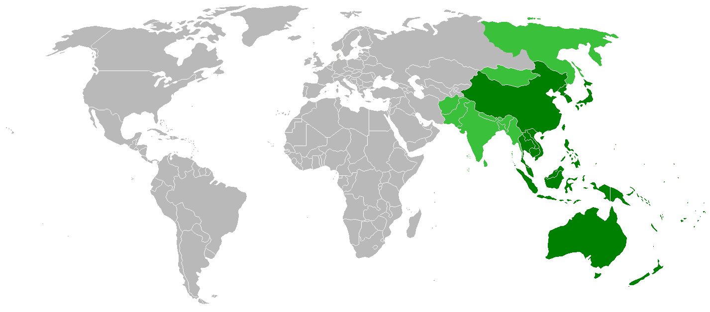 Map showing countries within the Asia-Pacific region. The definition of the region is fairly ambiguous.